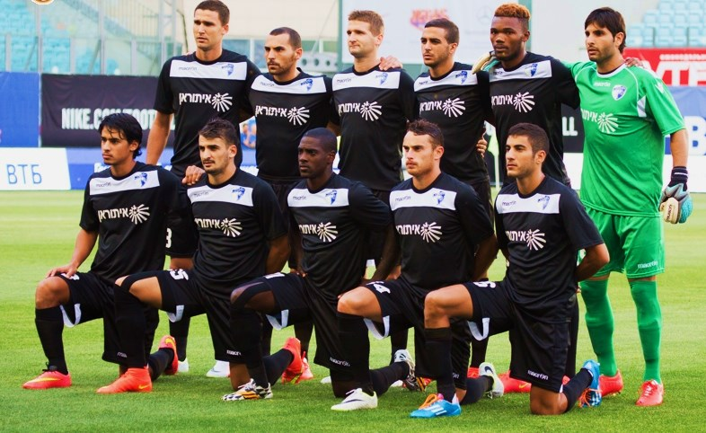 Hapoel Ironi Kiryat Shmona 08.2014